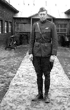 Colonel Leslie MacDill, namesake of MacDill Air Force Base